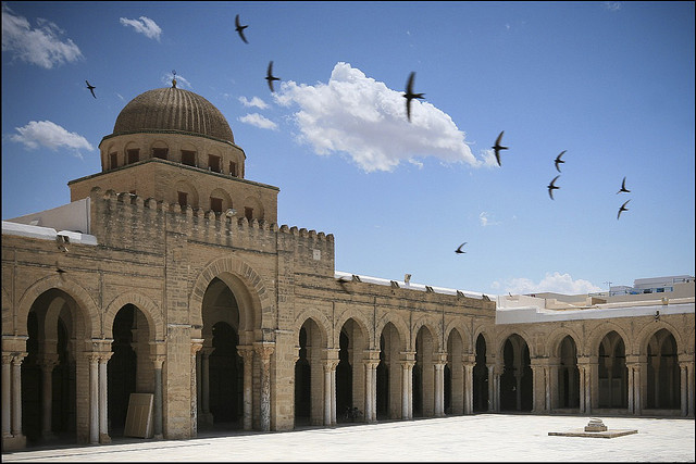 Prayer hall facade and part of the courtyard at the Great Mosque of Kairouan (also called the Mosque of Uqba), in Tunisia.